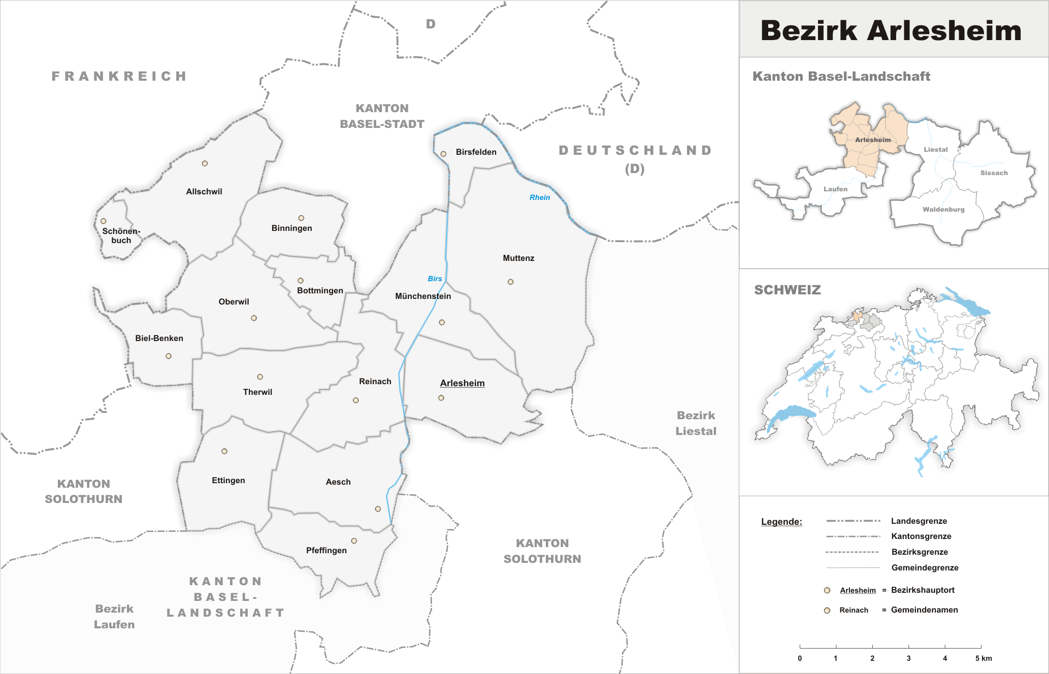 Municipalities in the district of Arlesheim